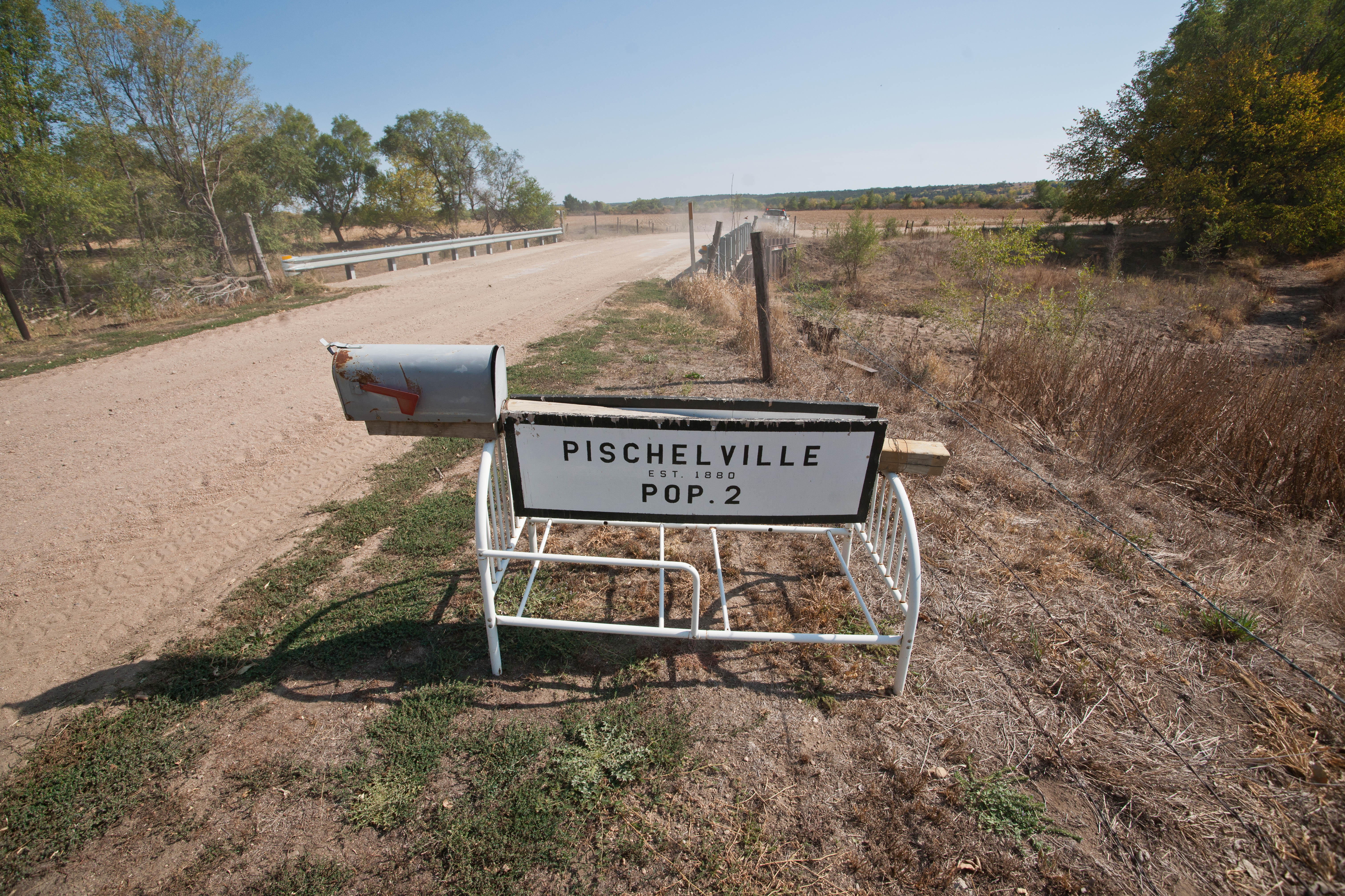 From